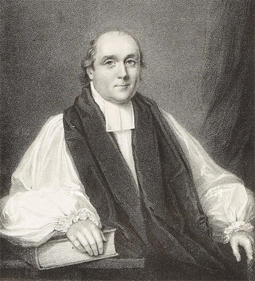 Portrait of Power Le Poer Trench (1770–1839)